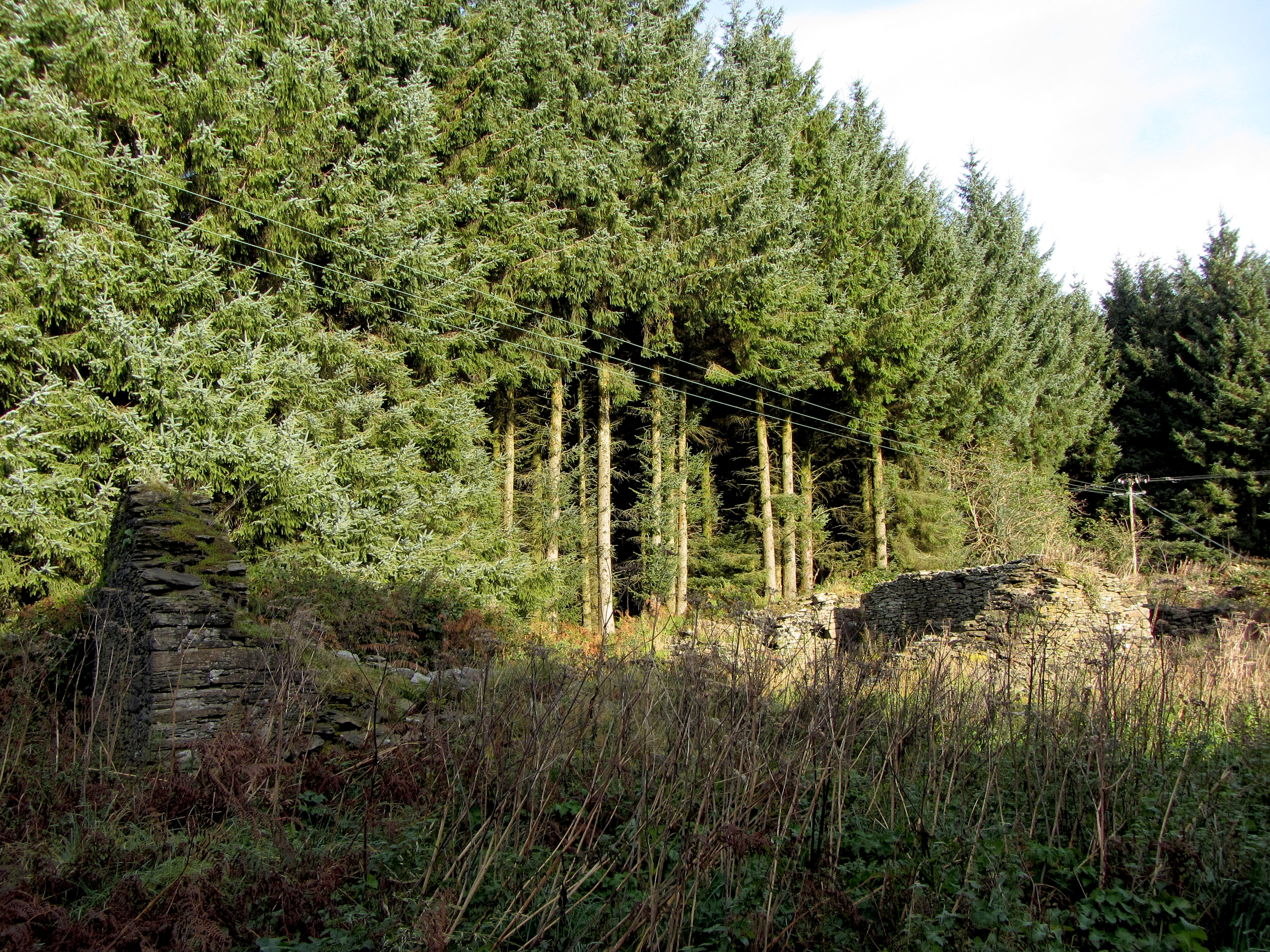 Remains of buildings at Pen-y-Graig Farm